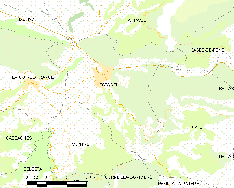 Map of French municipality